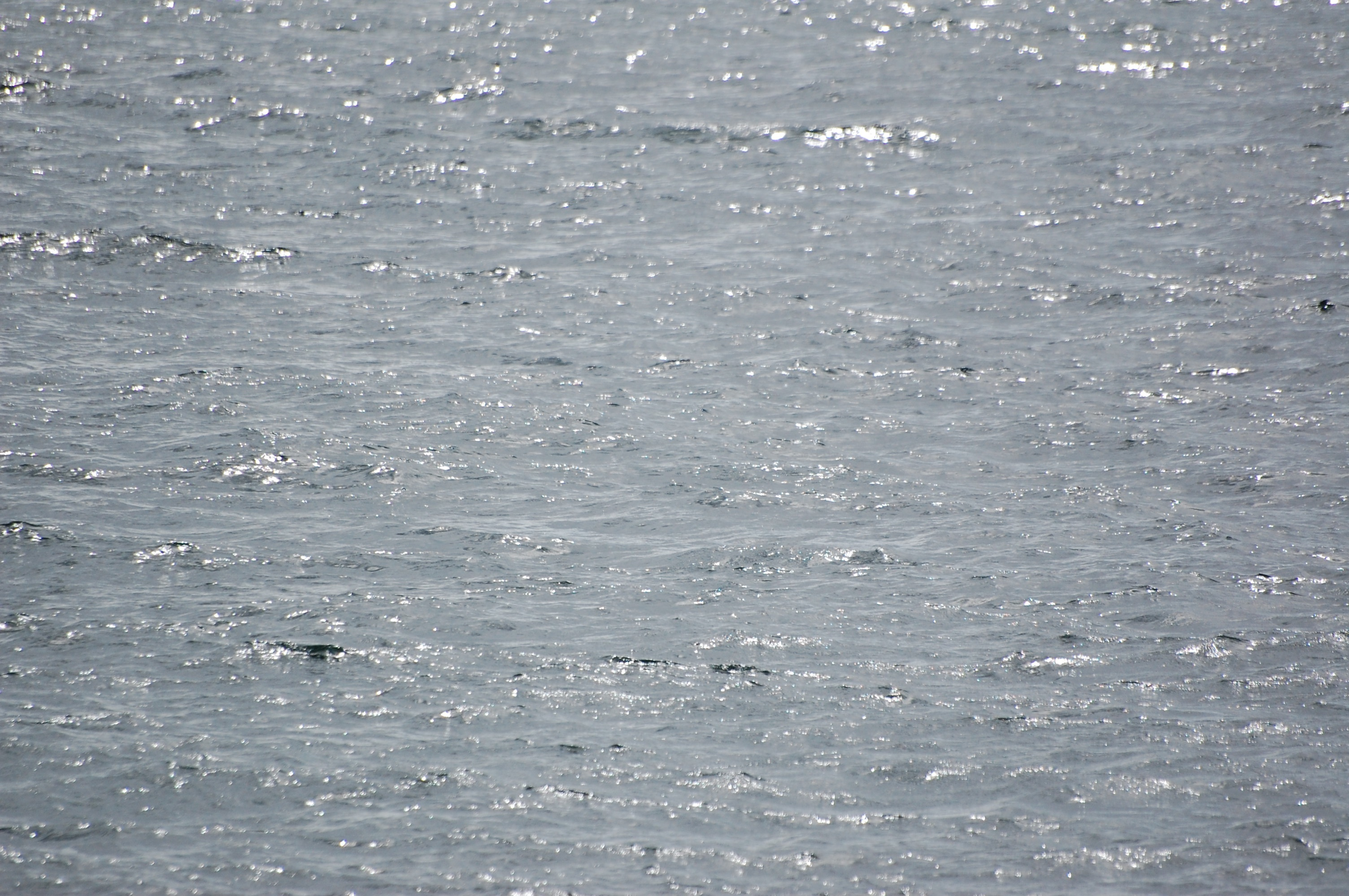 Texture. Isle of Arran, Scotland. July 2010.